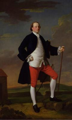 Portrait of John Manners, Marquess of Granby